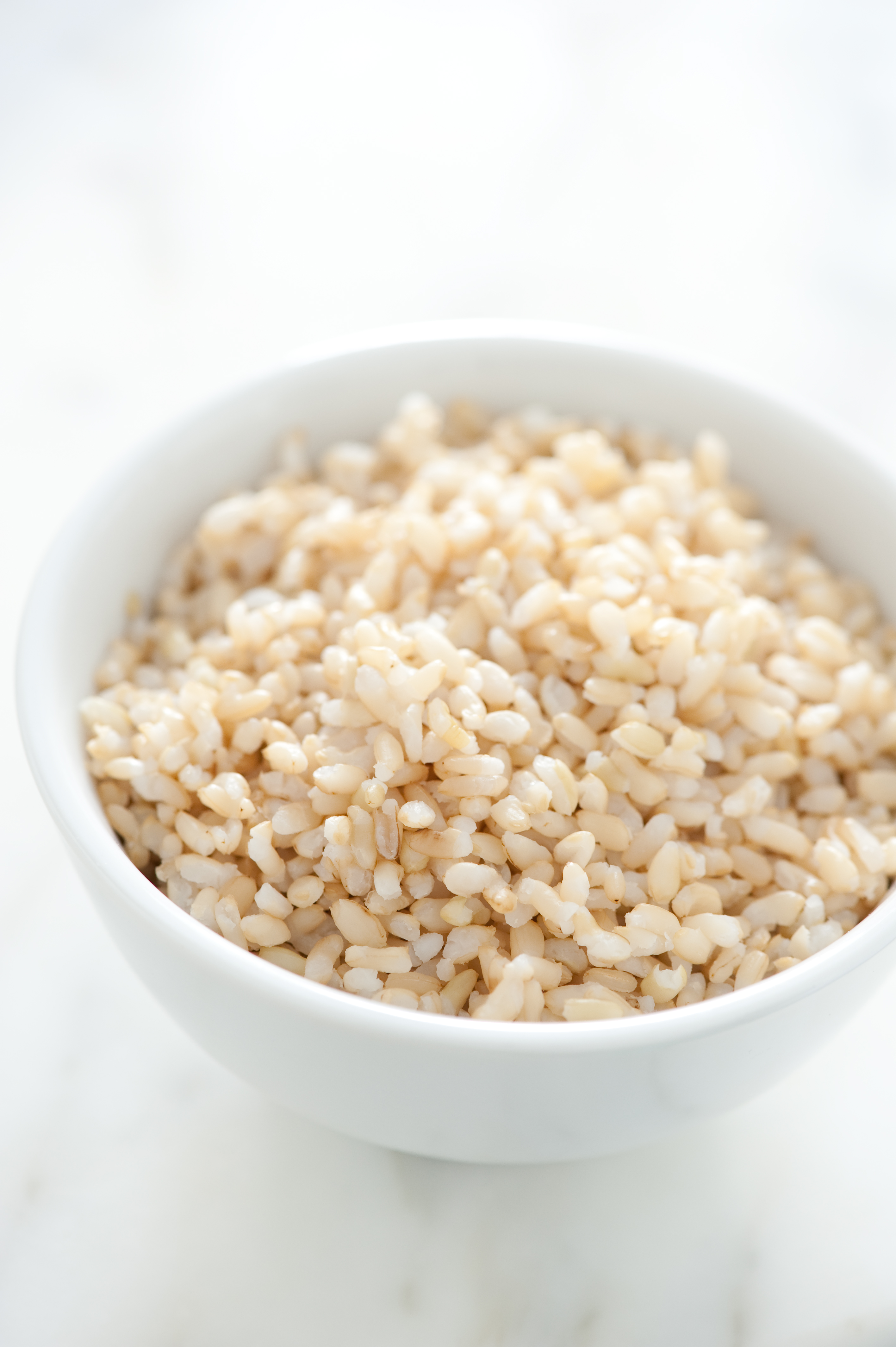 Par cooked brown rice.